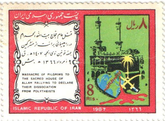 1987 "Massacre of Pilgrims to the Sacred House of Allah Rallying to Declare their Dissociation from polytheists" stamp of Iran